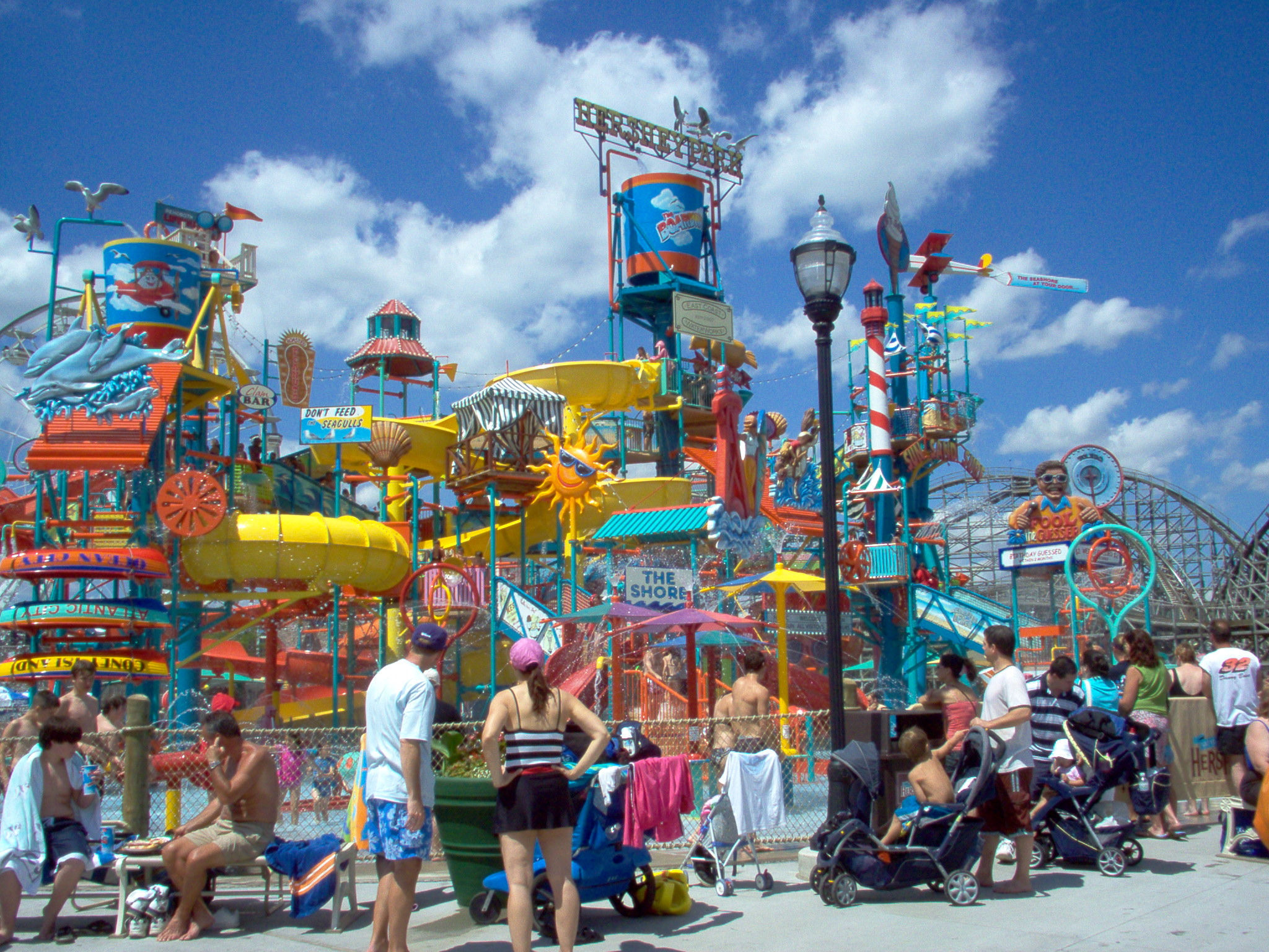 This is 'The Boardwalk.' It is the waterpark section of Hershey Park. The Boardwalk was added to Hershey Park in 2007 as a celebration of Hershey Park's 100th anniversary.